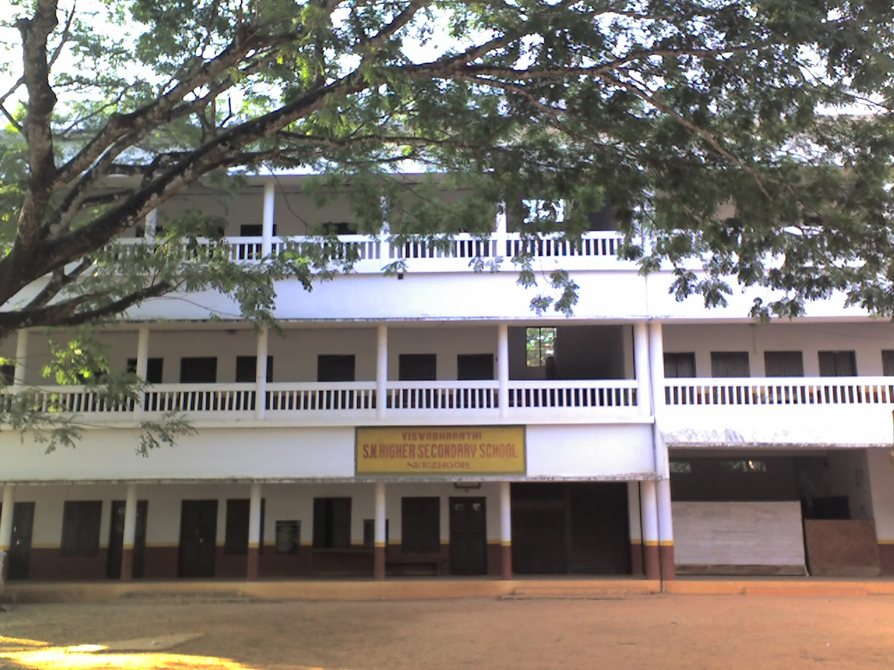 VBSNHSS.